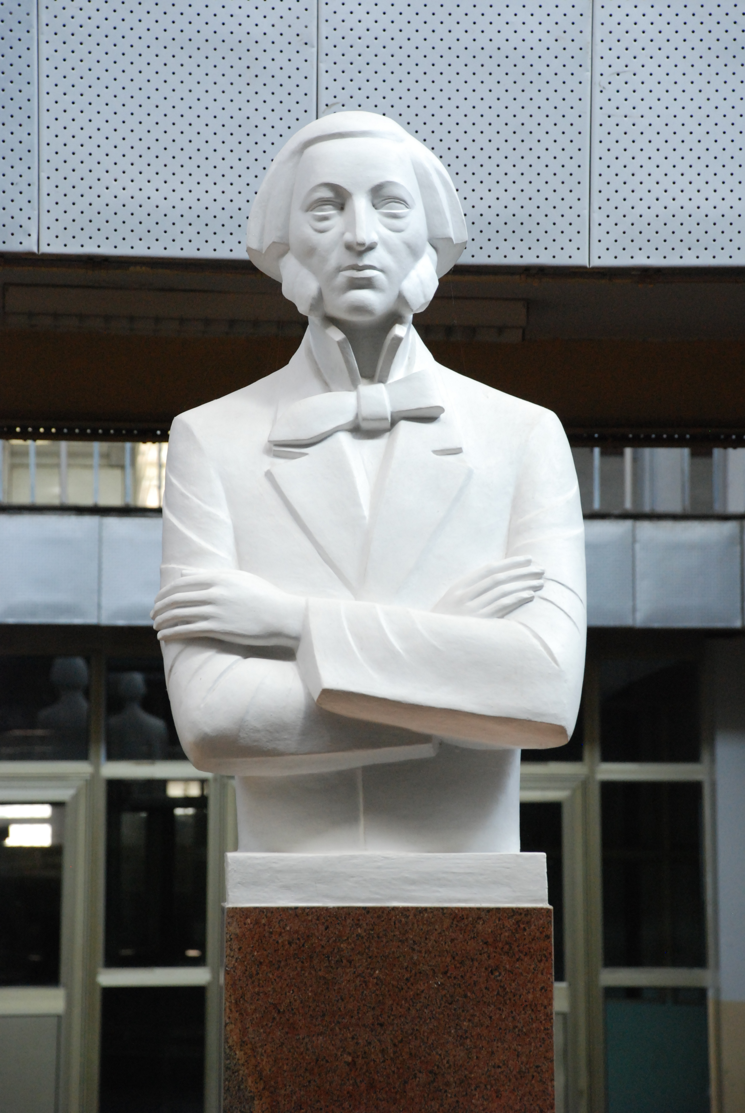 «Միքայել Նալբանդյան» կիսանդրի, մարմար, գրանիտ, 2004, Մ. Նալբանդյանի անվան պետական մանկավարժական ինստիտուտի ճեմասրահ